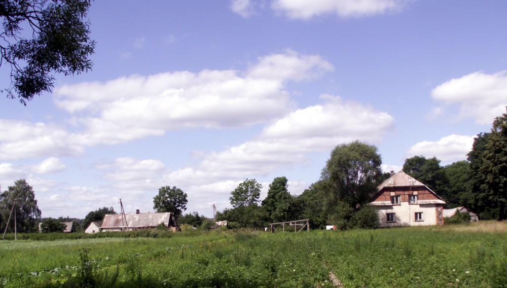 Dzidai, Šiauliai district, Lithuania